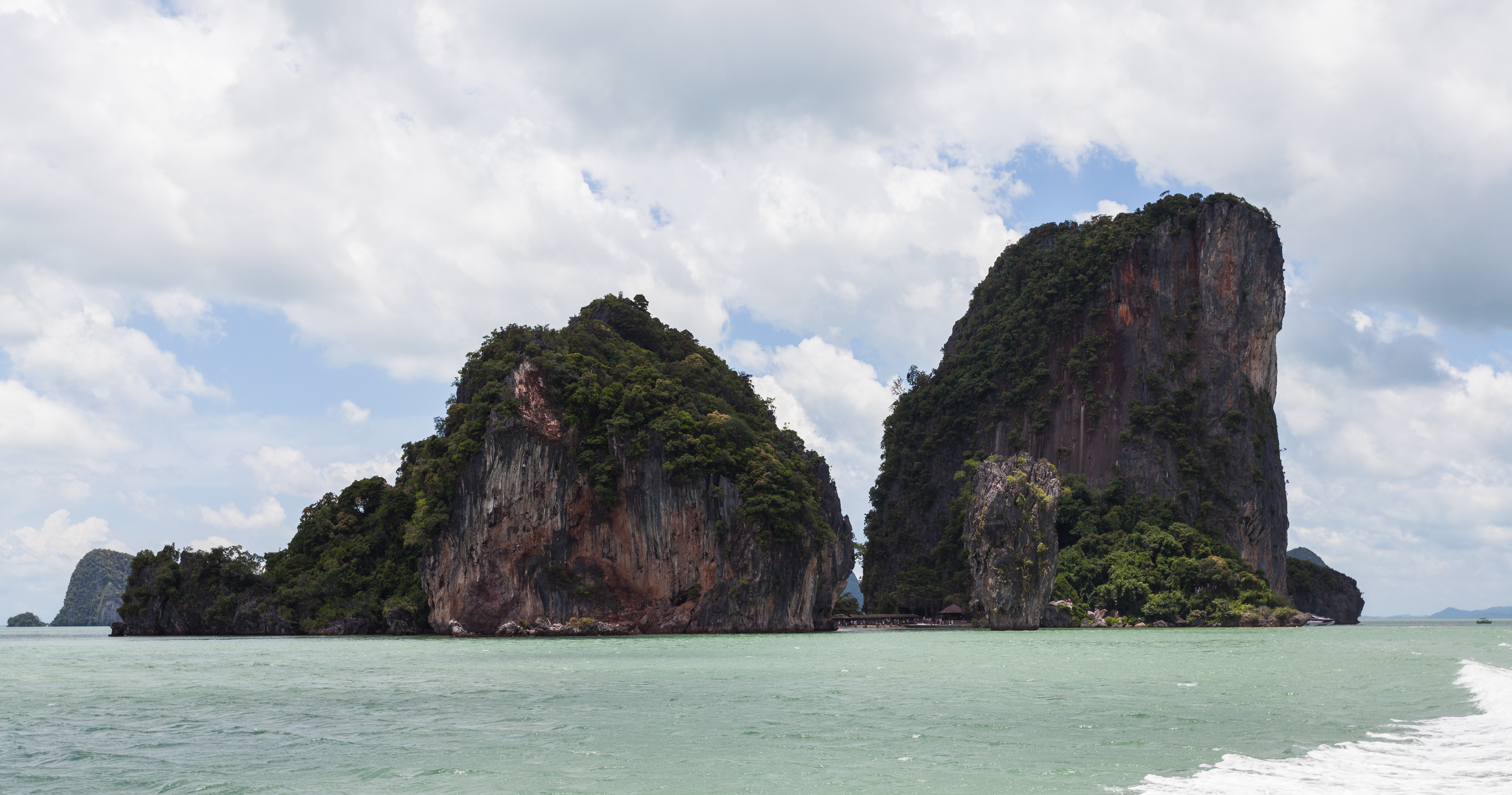 Tapu Island, Phuket, Thailand